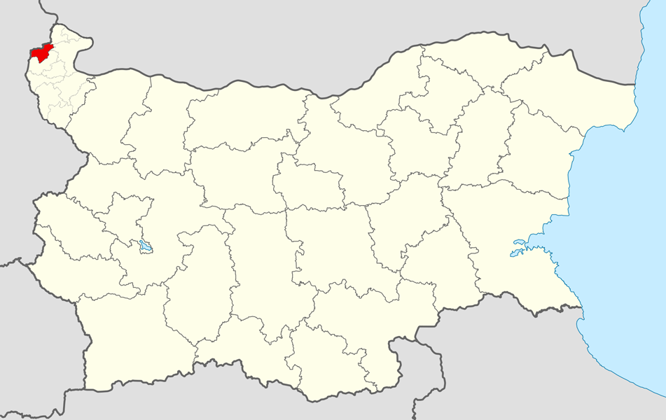 Location map of Boynitsa Municipality within Bulgaria and Vidin Province. Equirectangular projection, N/S stretching 130 %. Geographic limits of the map: N: 44.4° N S: 41.1° N W: 22.1° E E: 28.9° E